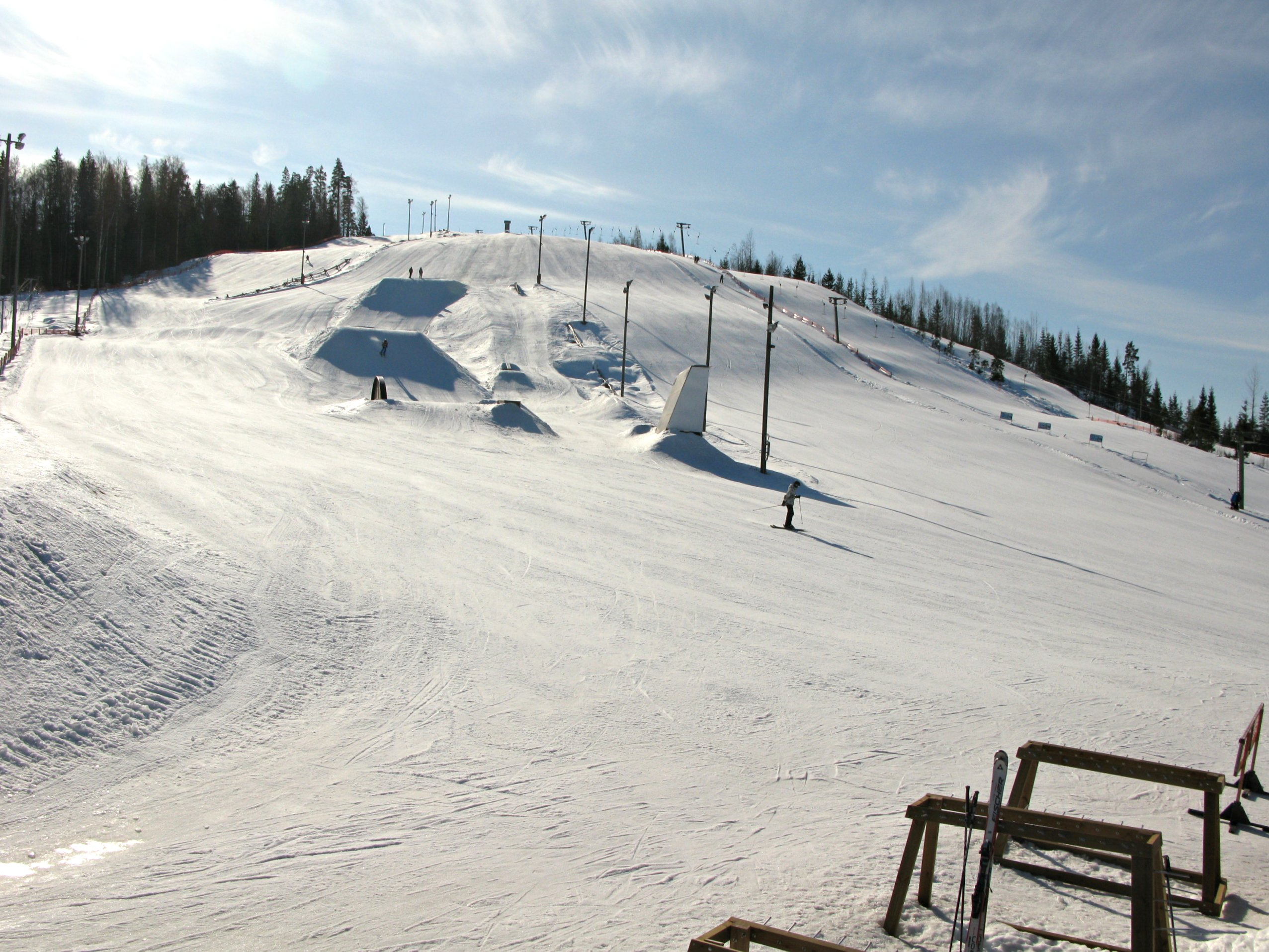 Häkärinteet ski resort in Hankasalmi, Finland